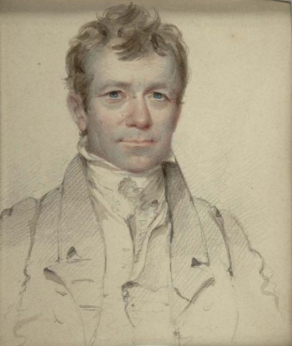 John Wesley Jarvis